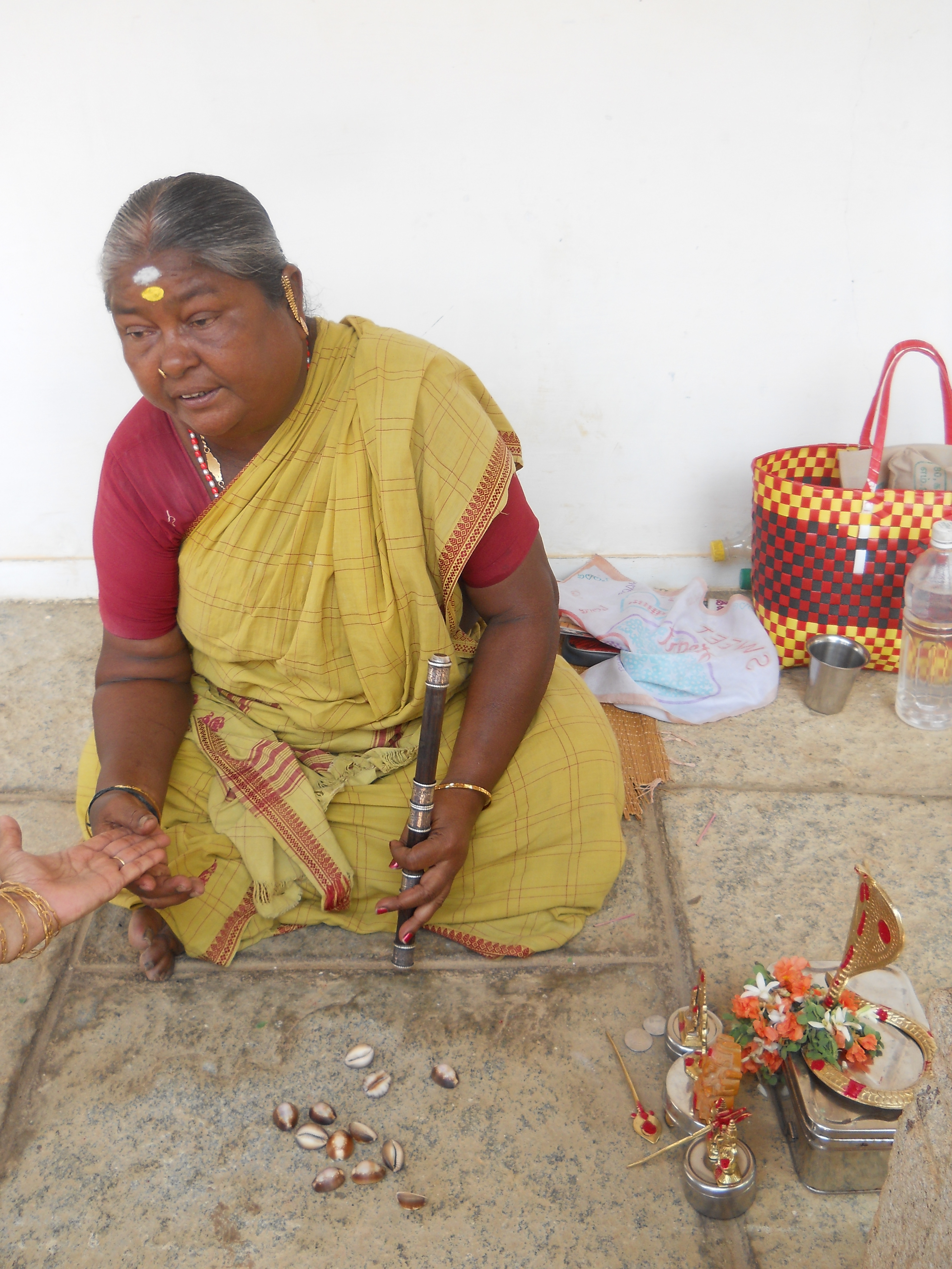 Tamil palmistry